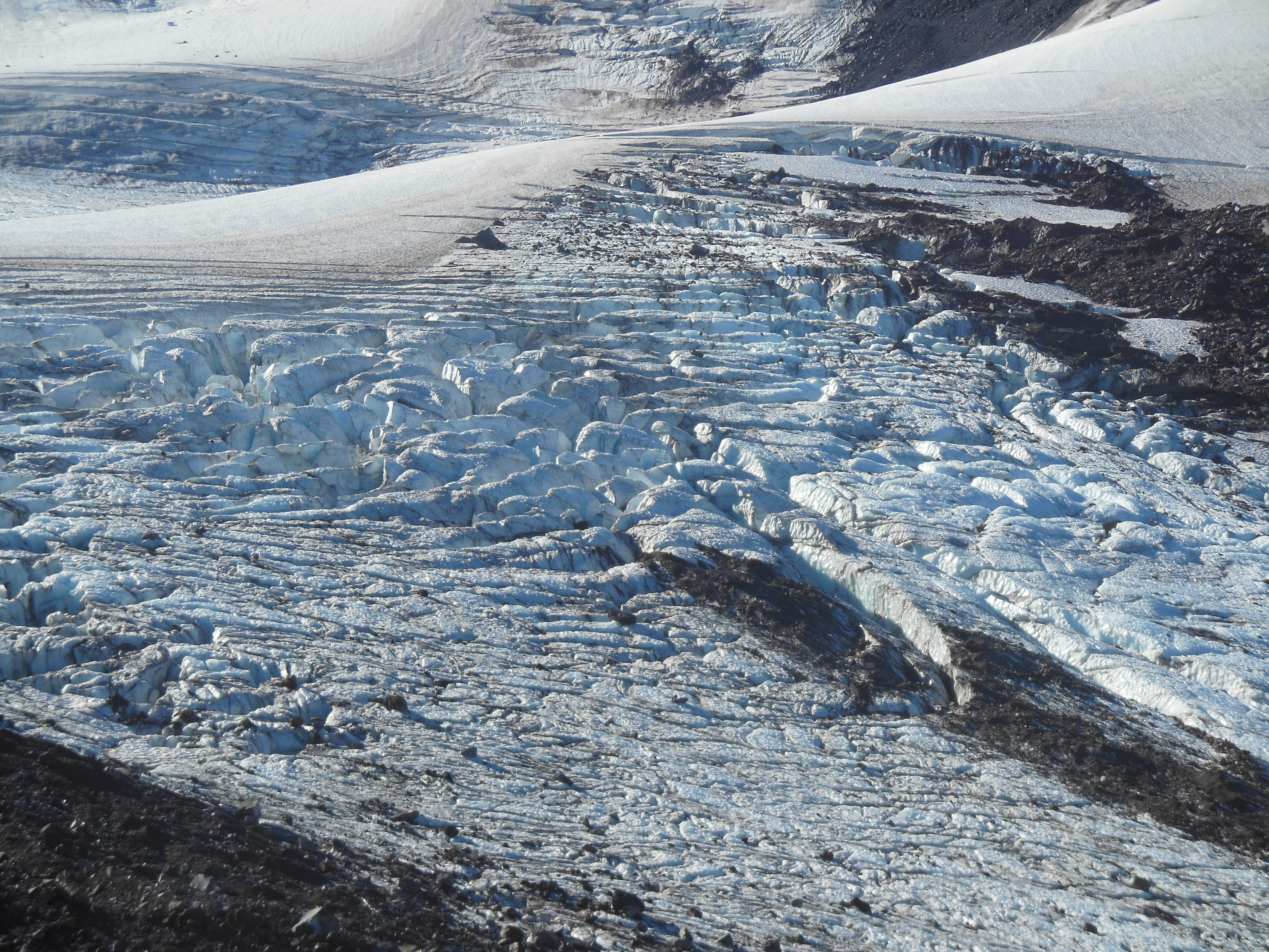 Part of the Jefferson Park Glacier on the north side of Mount Jefferson in Oregon, USA